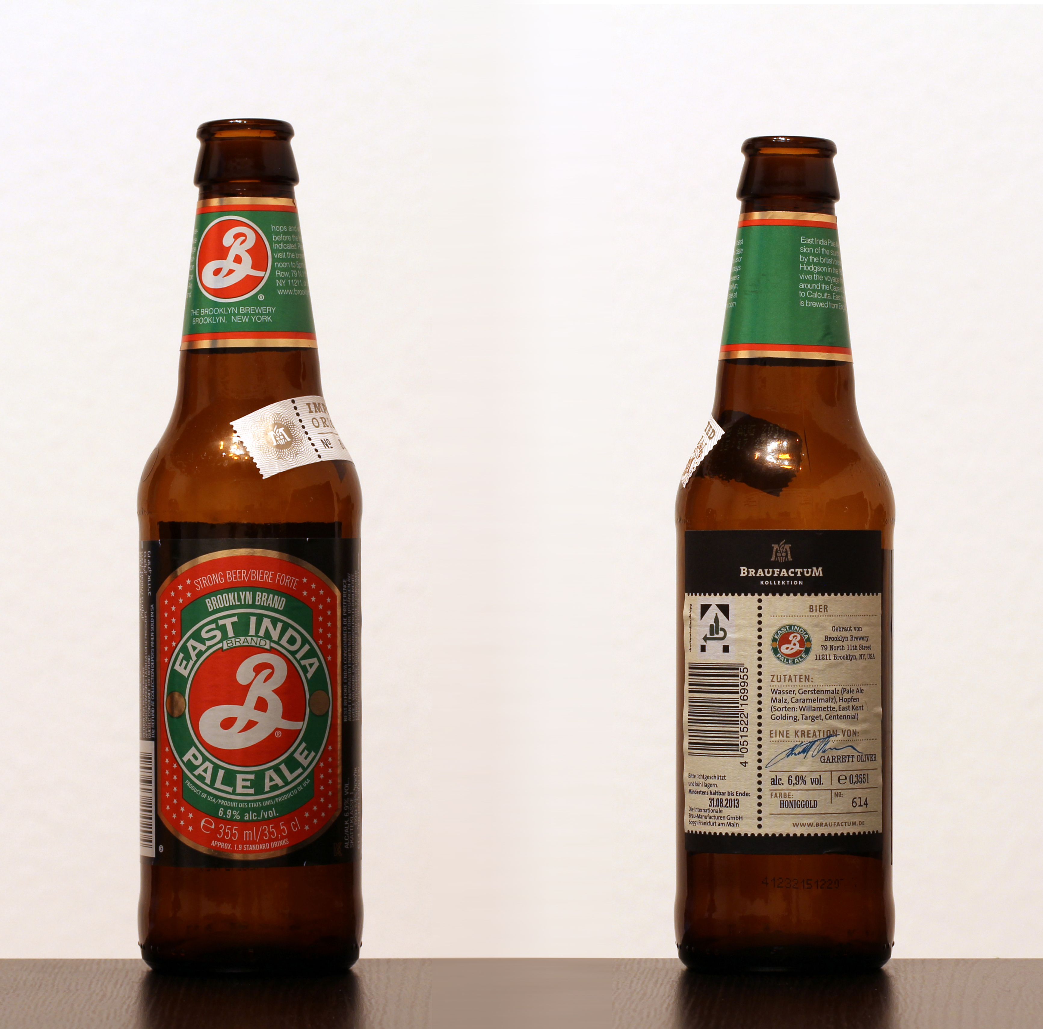 Two 355 millilitres (12.5 imp fl oz; 12.0 US fl oz) bottles of Brooklyn East India Pale Ale: a bilingual (English/French) label is visible on the bottle at left, while a German language label is visible on the other bottle